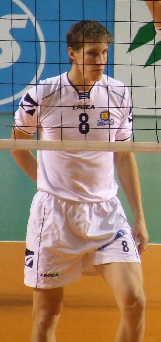 Finland volleyball player Tatu Säisä in Sampo`s